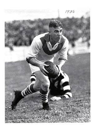 An image of Laurie Nash This image shows a photograph of Laurie Nash, taken in 1936. Under Australian law, all photographs taken in Australia before 1955 are in the public domain. This image is in the public domain under both Australian copyright law and US copyright law. Accessed from